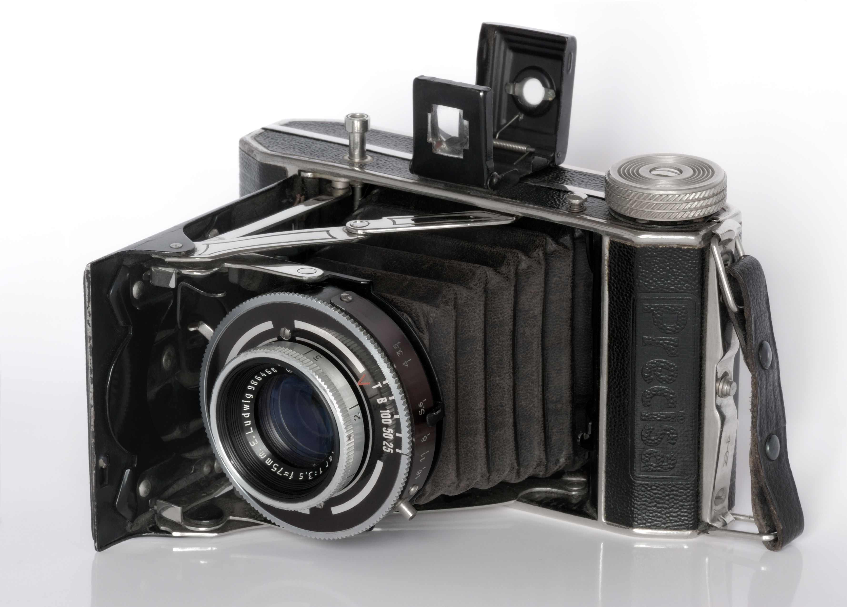 This image shows a folding bellow roll film camera of the make Beier Precise, manufactured around 1952. It has a Meritar lens (75 mm / f3.5) and a Binor shutter.